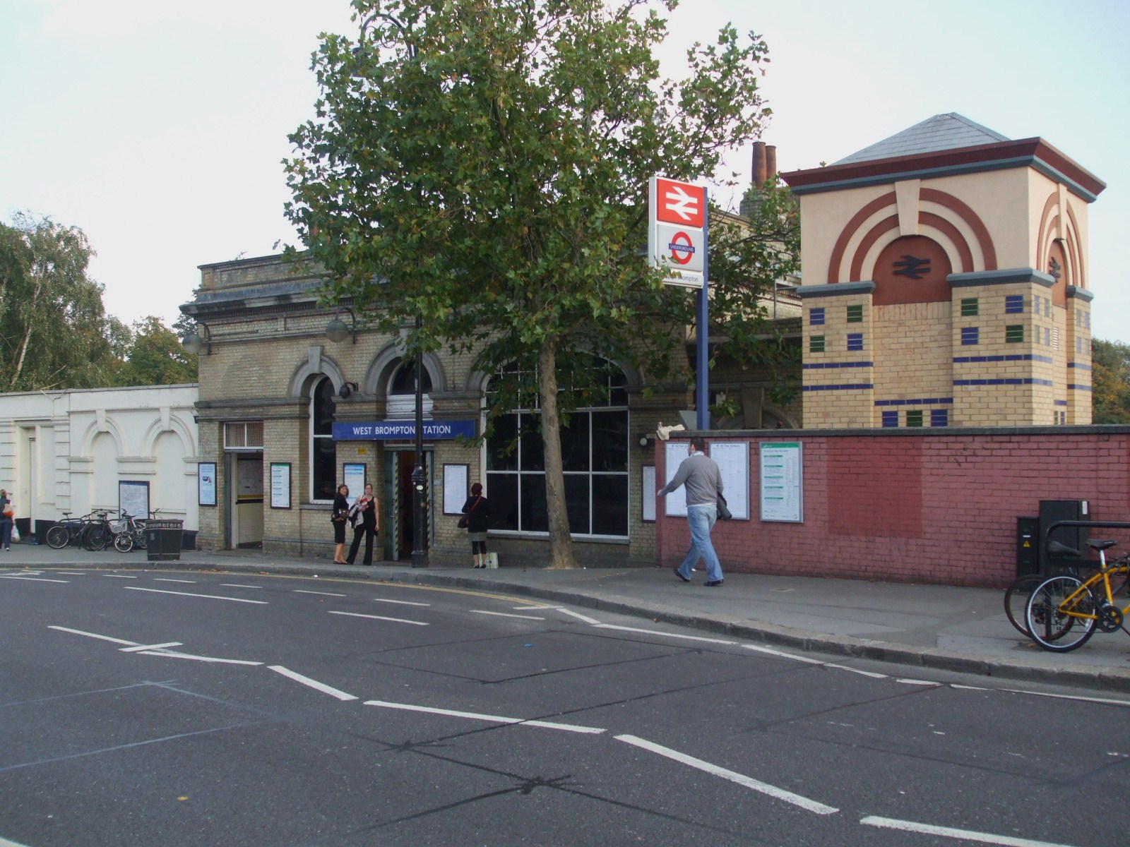 West Brompton station main entrance